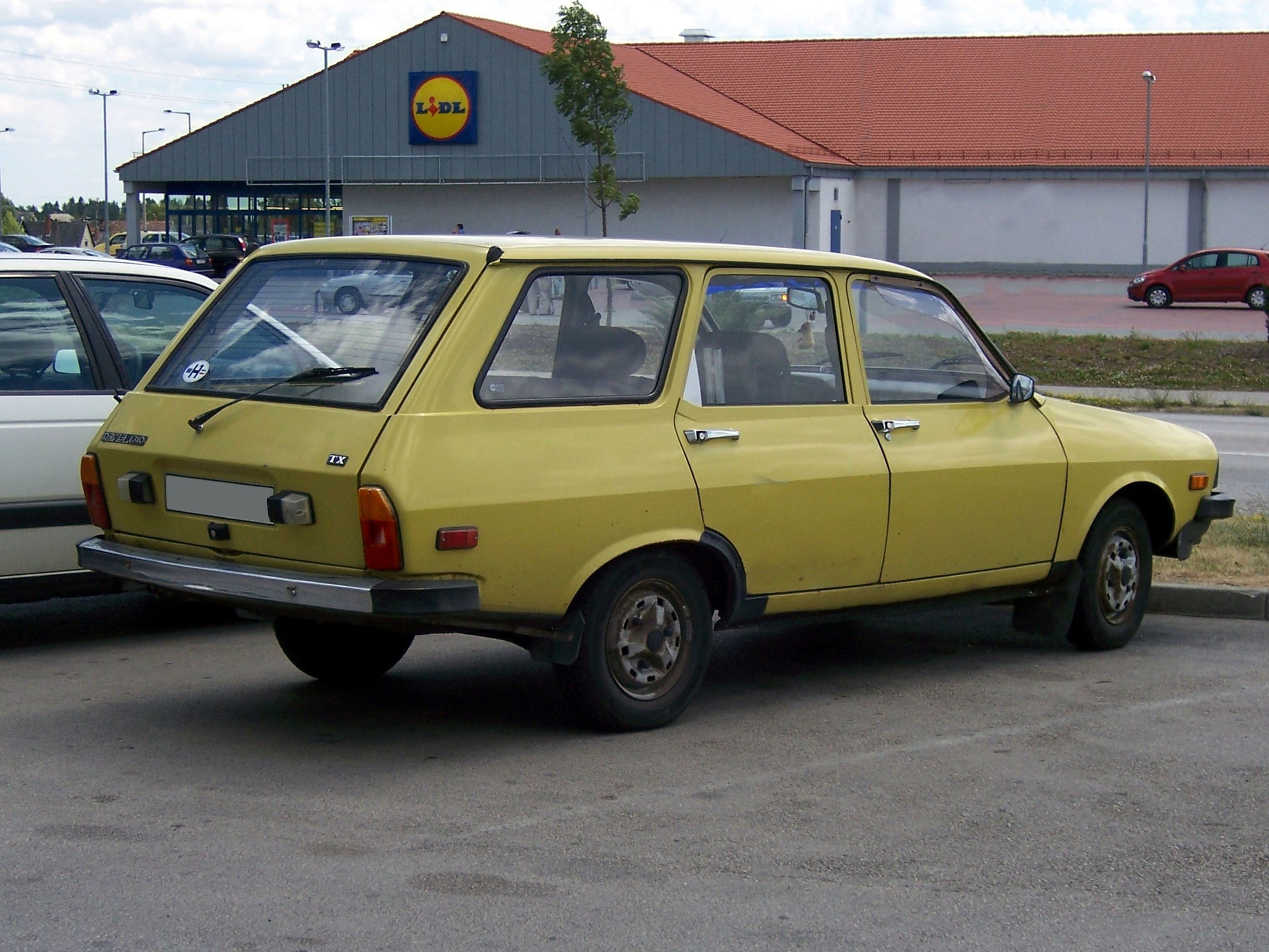 1983 Dacia 1310 break rear view